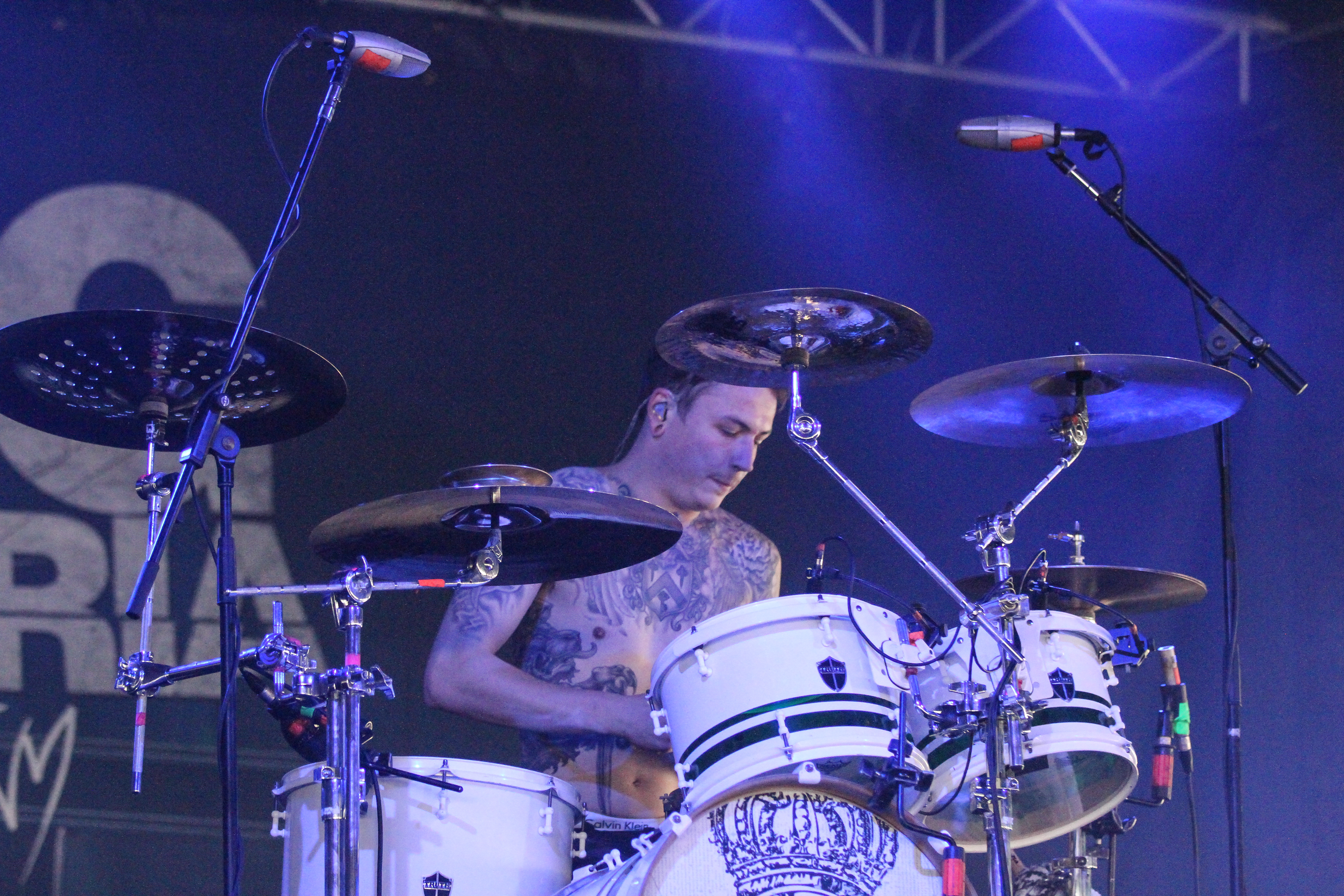 Festivalsommer This photo was created with the support of donations to Wikimedia Deutschland in the context of the CPB project "Festival Summer".